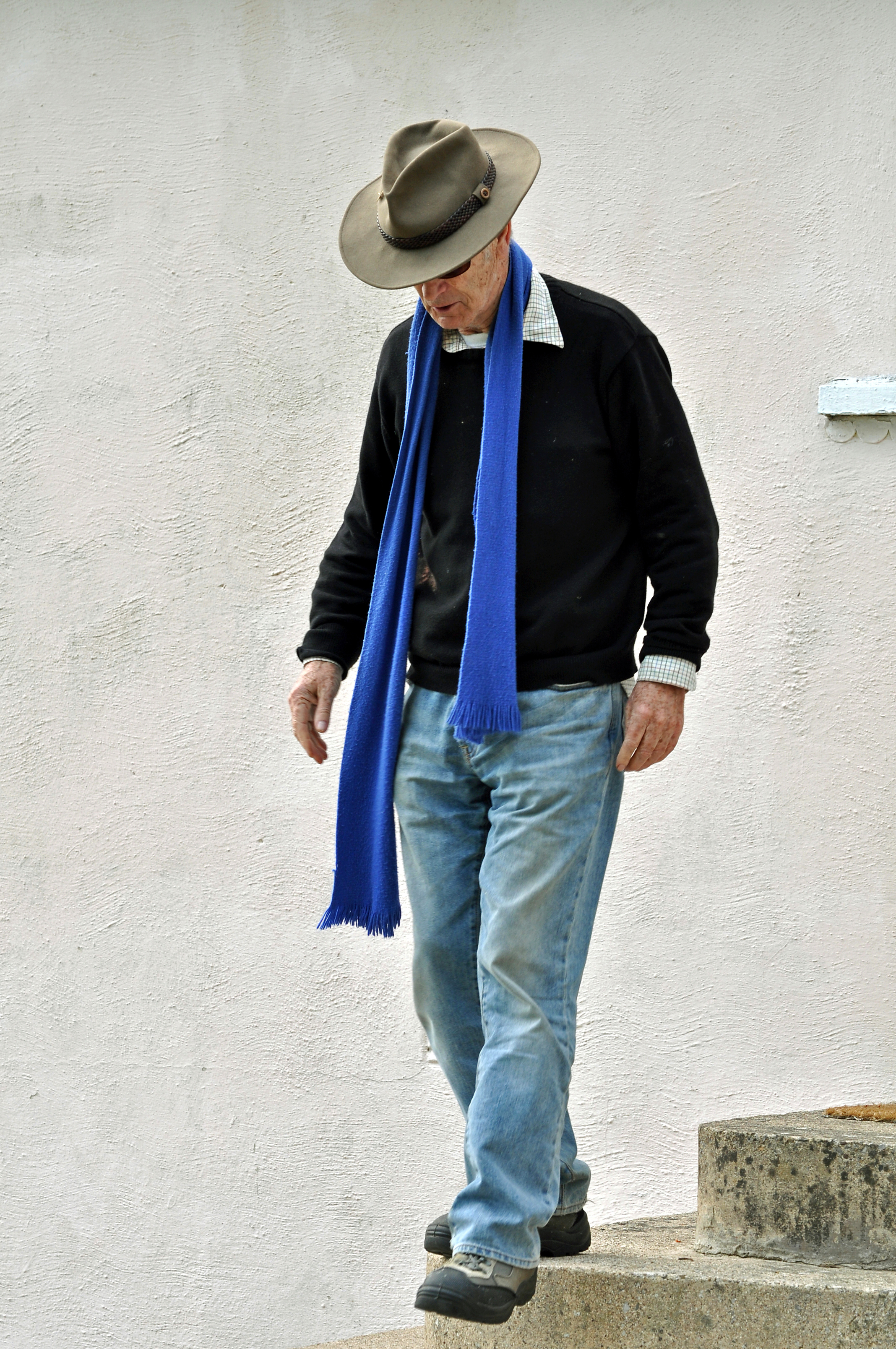 Author Gabriel Walsh